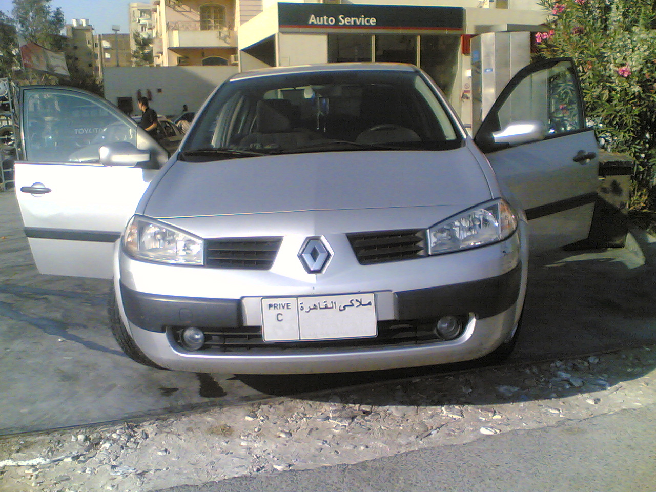 A front View of th Renault Megane car